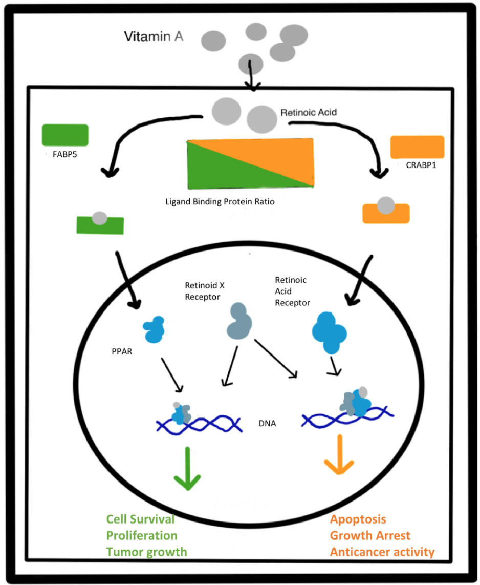 Cellular Effects of CRABP1